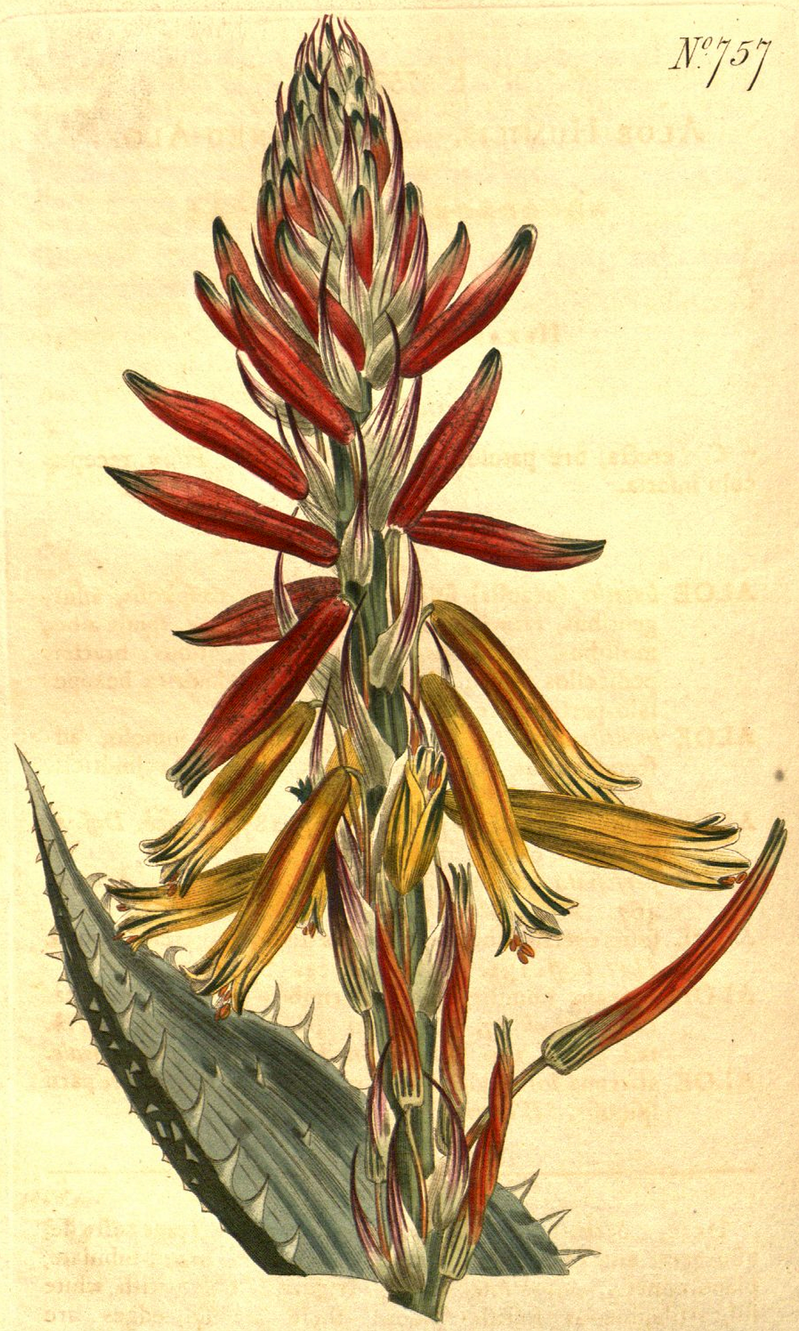 Aloe humilis